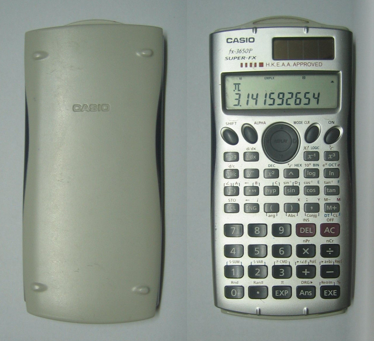 Casio fx-3650P with back cover (left), and without back cover (right)